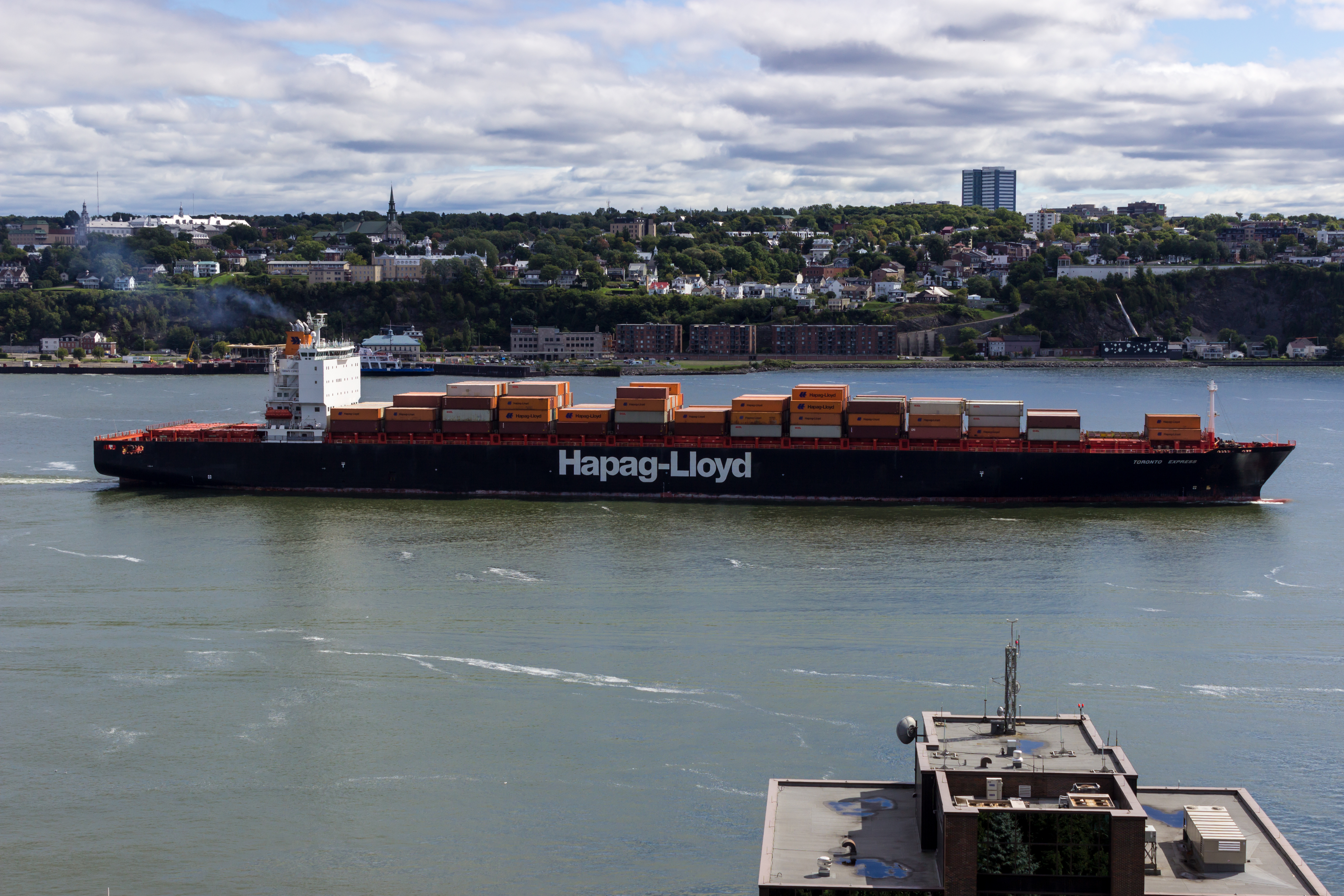 Toronto Express at Quebec City